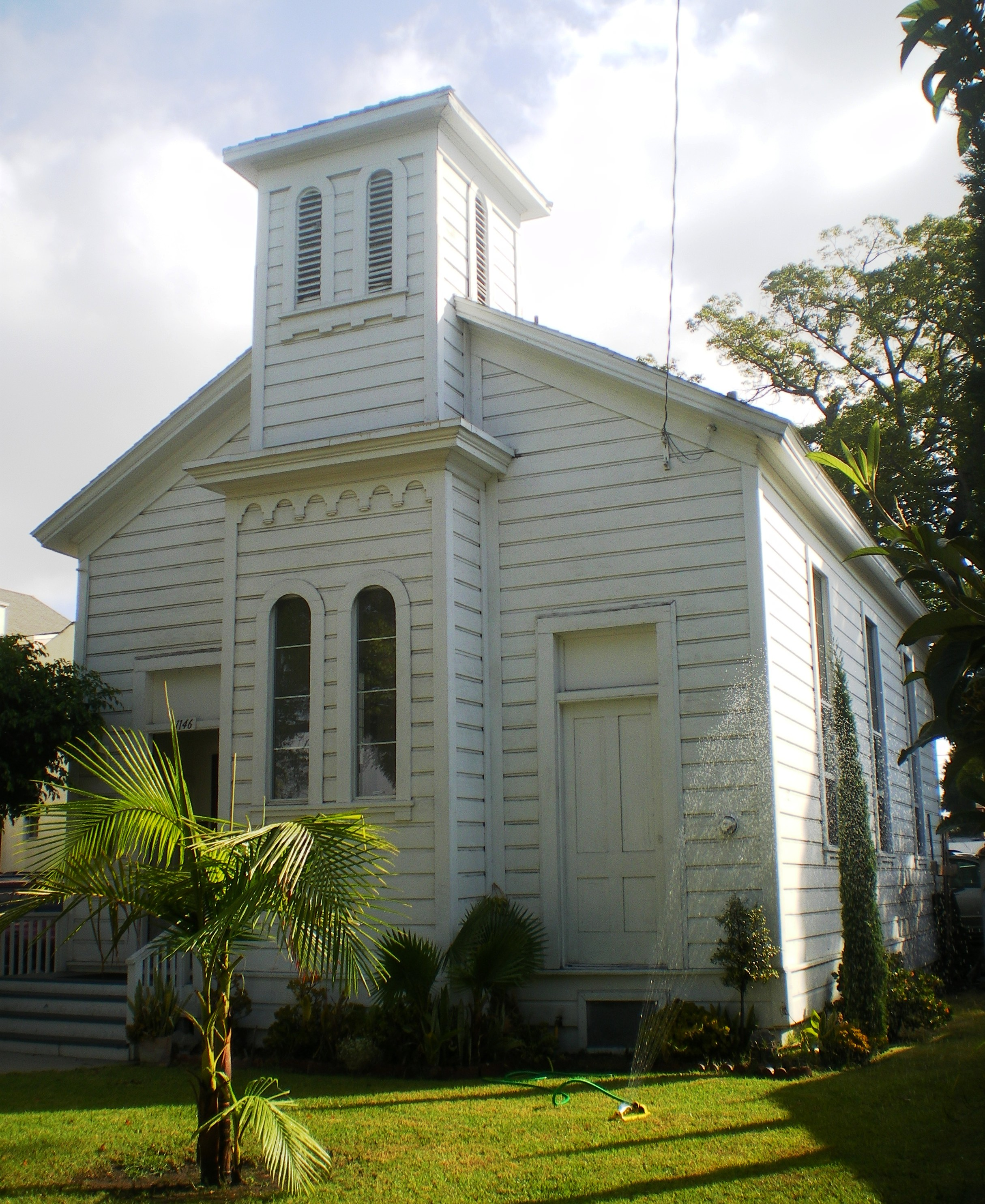 Memory Chapel, 1160 N. Marine Ave., Wilmington, Los Angeles, California